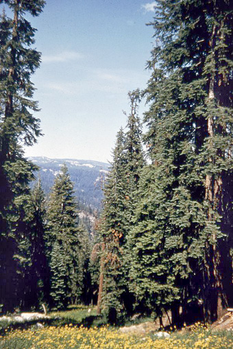 Picea abies